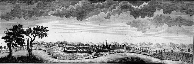 Gravure of city Pelym in the 18th century in Siberia